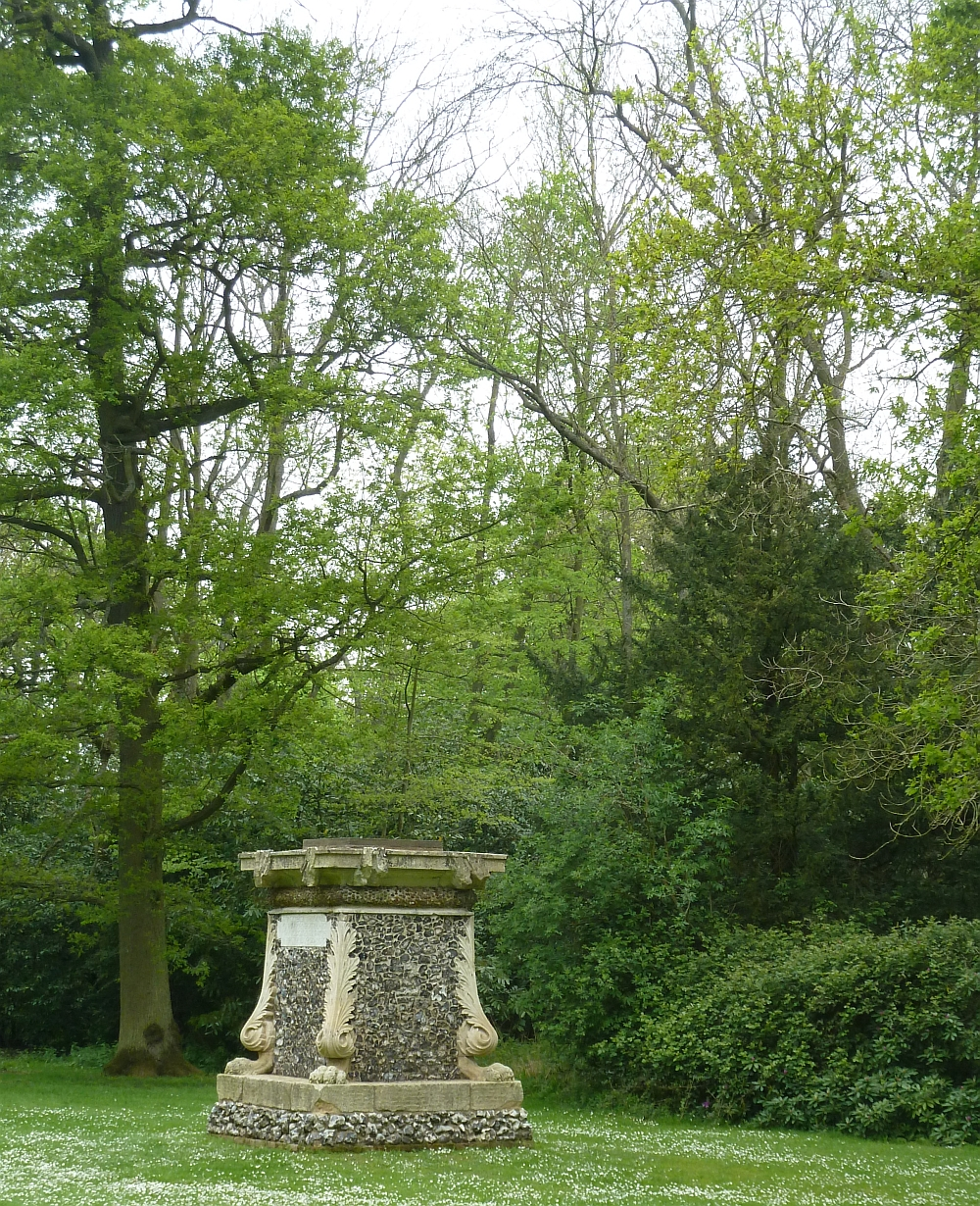 Wrest Park - Mithraic Altar